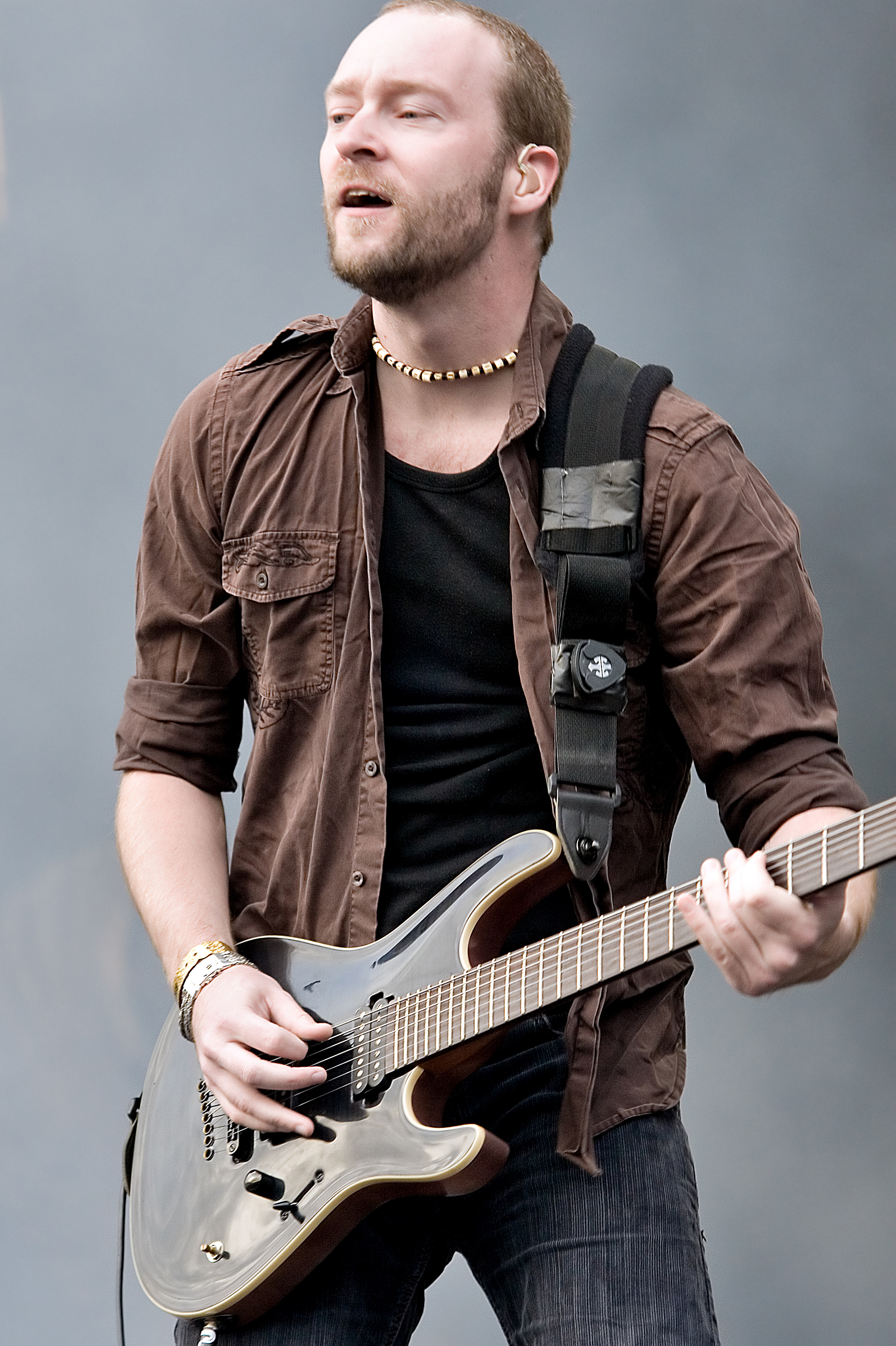 Ruud Jolie @ Rock en France (Arras)